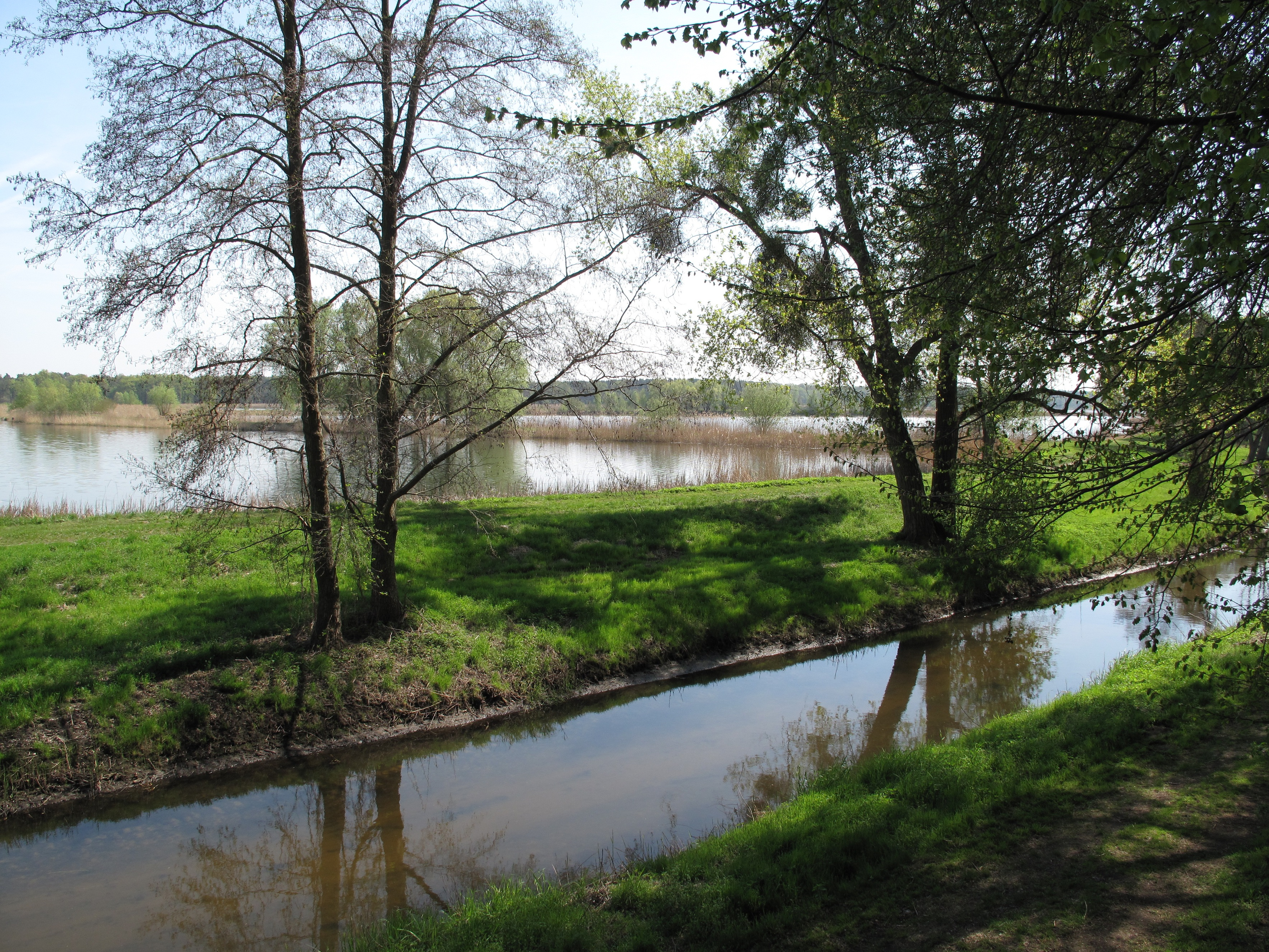 Stobber in Altfriedland, a village of the municipality Neuhardenberg. The river is running here directly alongside the Kietzer See (lake), a Special European Protection Area (SPA) for the conservation of wild living birds (Birds Directive). The Stobber (also called Stöbber) is the central river in the hill country „Märkische Schweiz“ and the Märkische Schweiz Nature Park, Brandenburg, Germany. The stream runs over a distance of 25 kilometers from the lowland moor and source area Rotes Luch towards the northeast through Buckow to the Oderbruch. The Stobber flows at Neuhardenberg to the „Friedländer Strom“, whose waters run over some canals to the Oder River → Baltic Sea. On a roughly 13 kilometer long route of its course there is designated the nature protection area „Naturschutzgebiet Stobbertal“.